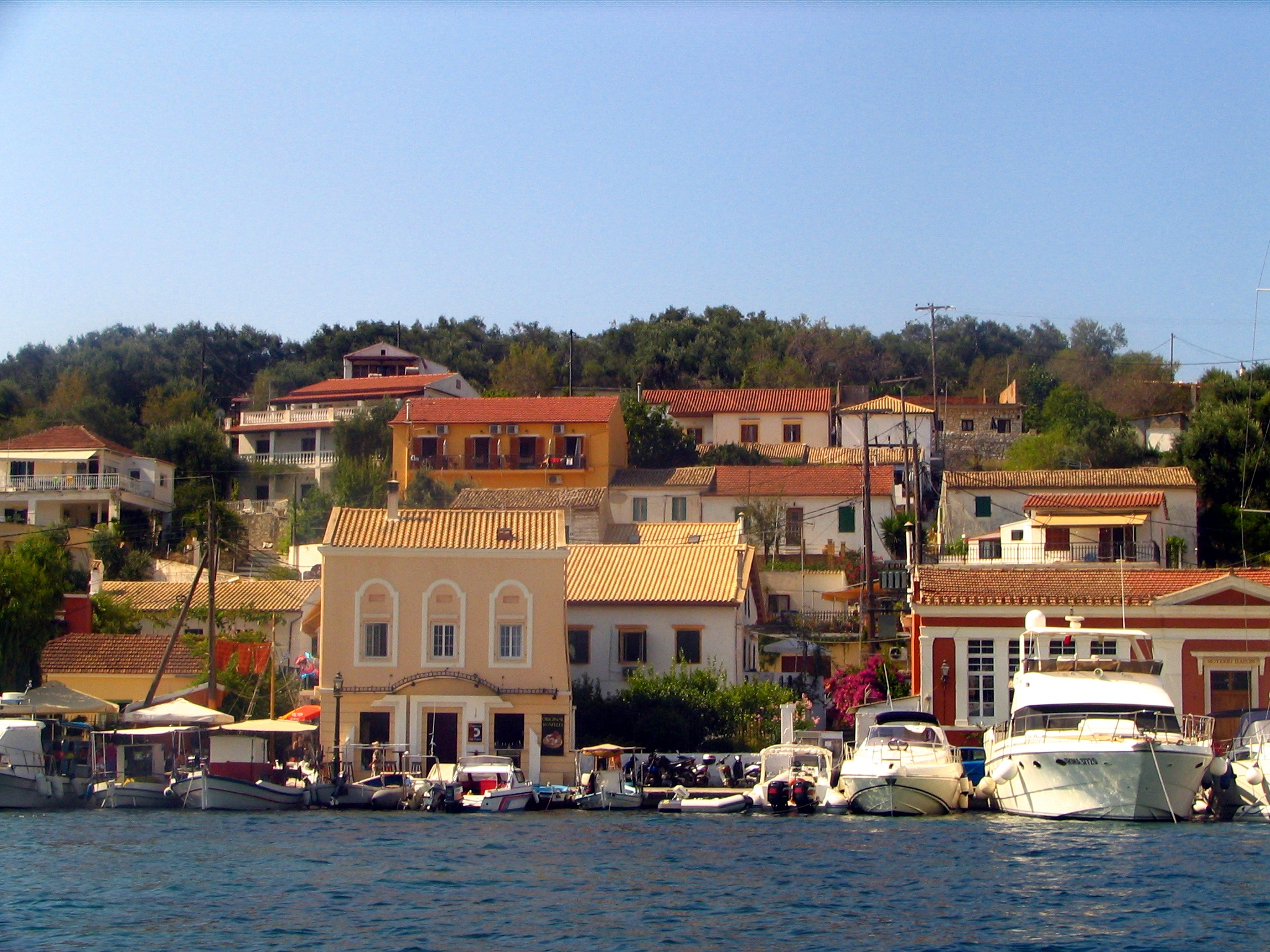 The town of Gaios, Paxos Island, Greece.